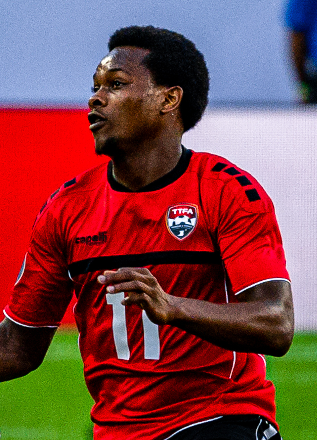 USMNT vs. Trinidad and Tobago